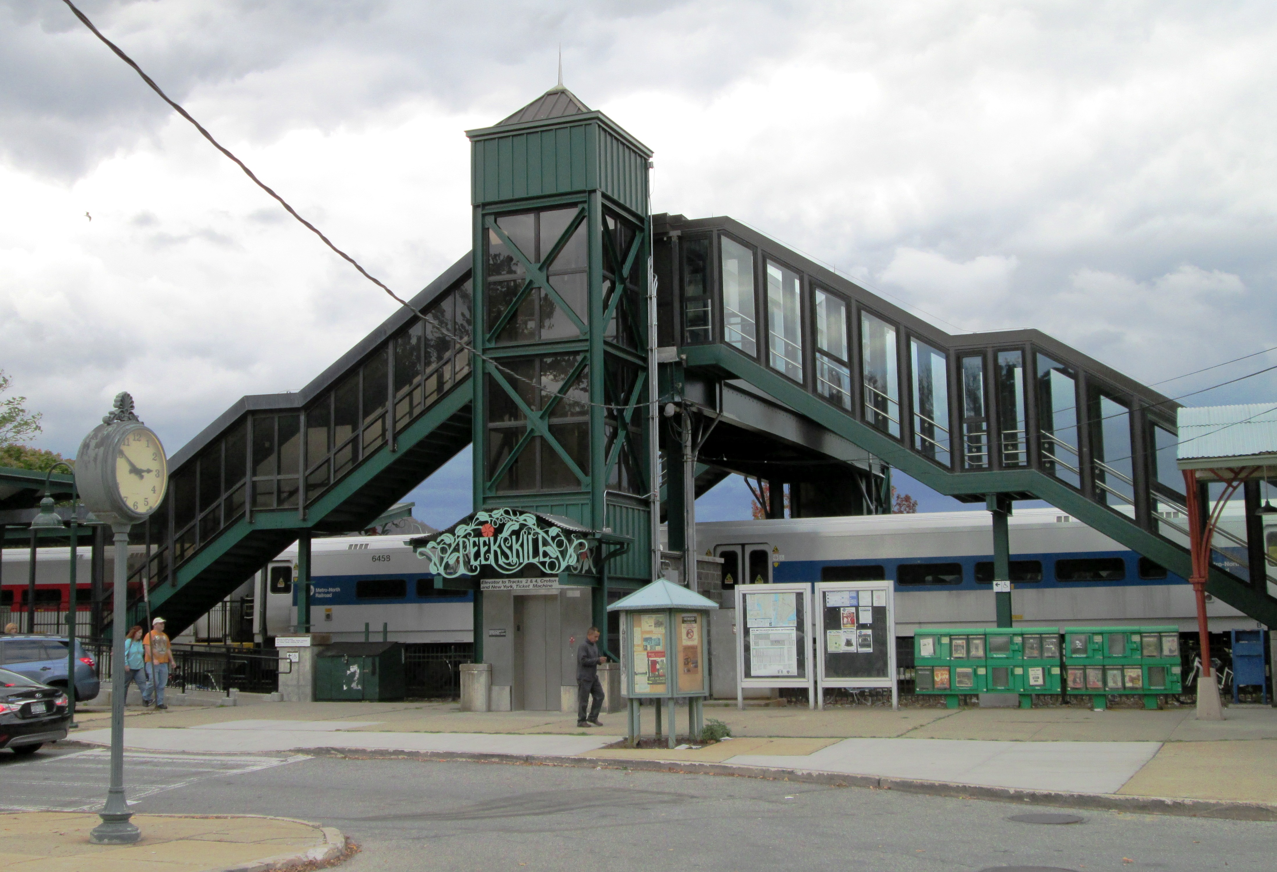 The crossover stairs for the Peekskill Metro-North Railroad station, on Railroad Avenue in Peekskill, New York.